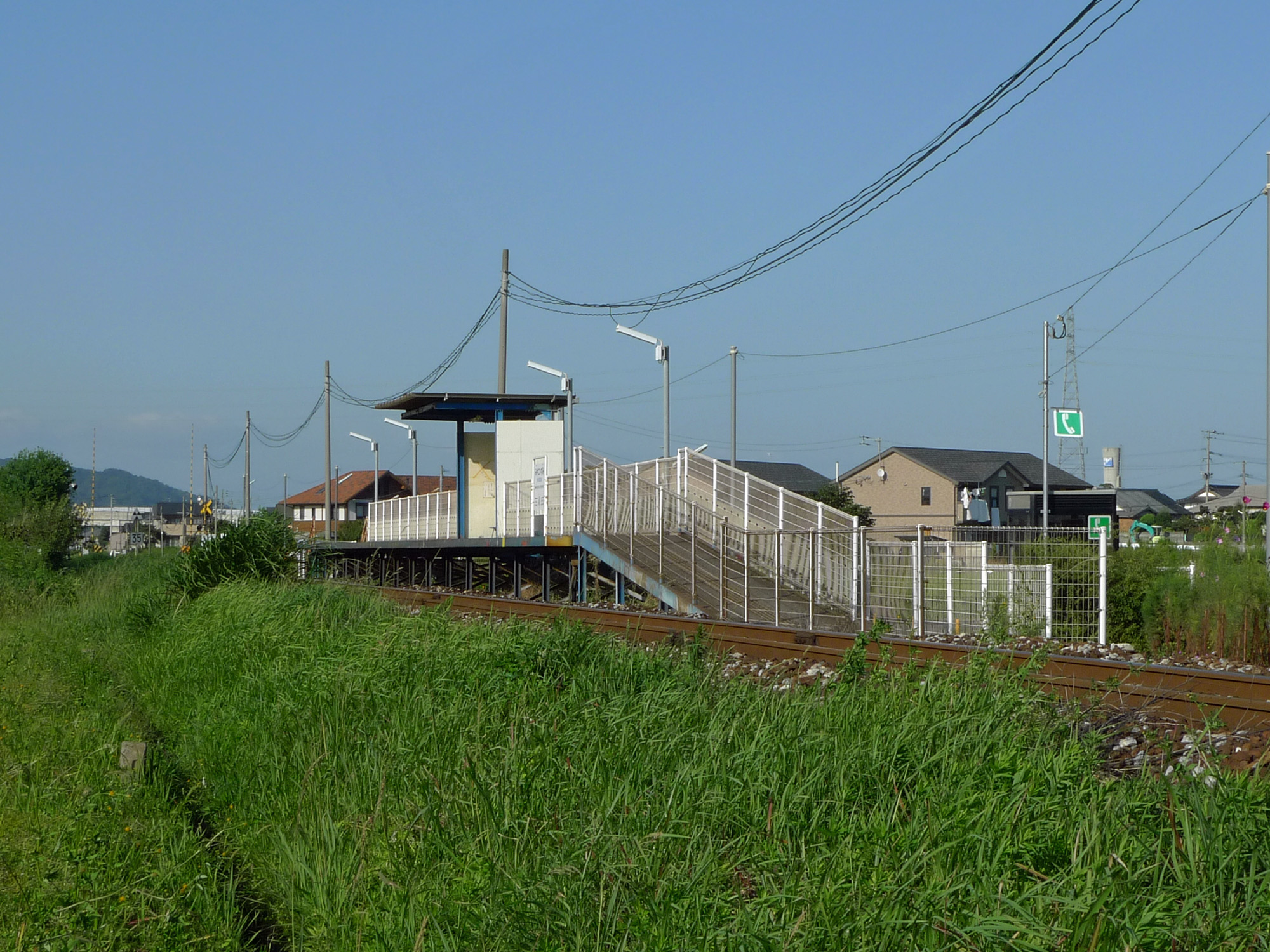 Miyakoizumi Station platform of Heisei Chikuho Railway.